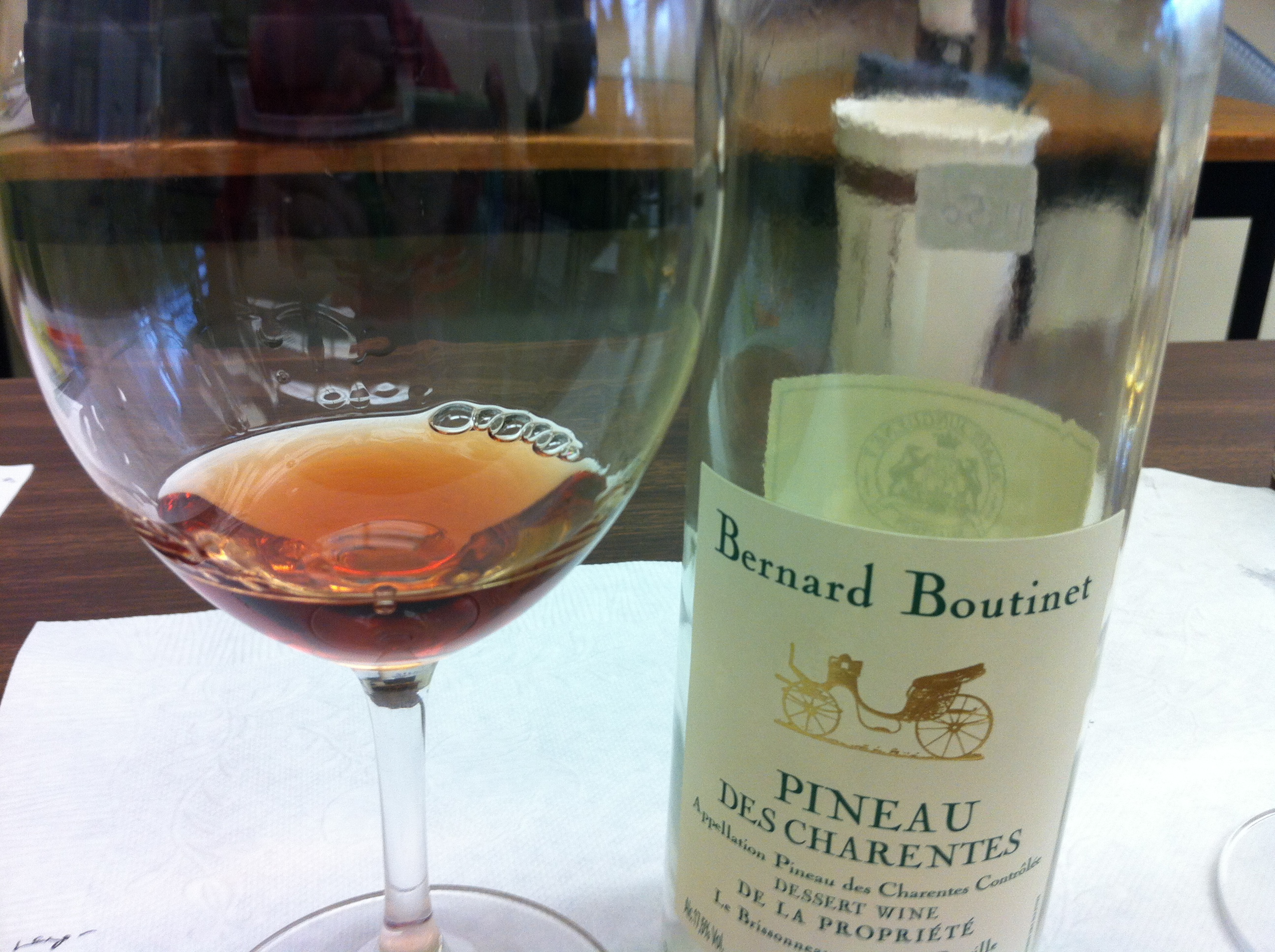 French fortified aperitif wine made in the Charente region